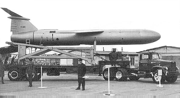 A TM-76B (CGM-13B) Mace on display at Bitburg Air Base during Armed Forces Day, 1963